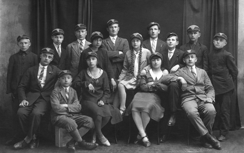 Jacques Hnizdovsky class picture (sitting on crate in front row)